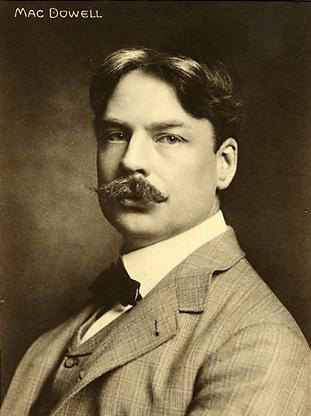 Photograph of Edward MacDowell: this was published in Hagedorn, Hermann (December 28, 1921). "The Peterborough Colony". The Outlook 129 (17): 688. New York, United States: The Outlook Company. Retrieved on October 18, 2011.